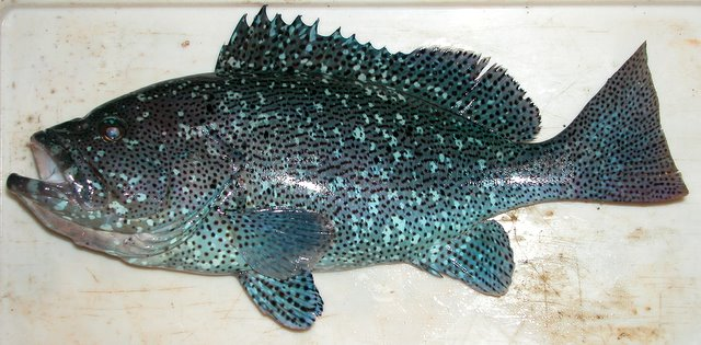 Epinephelus cyanopodus. Locality: Off Nouméa, New Caledonia. Fork length: 500 mm. Weight: 2,200 grams. Date: 2007/07/08.